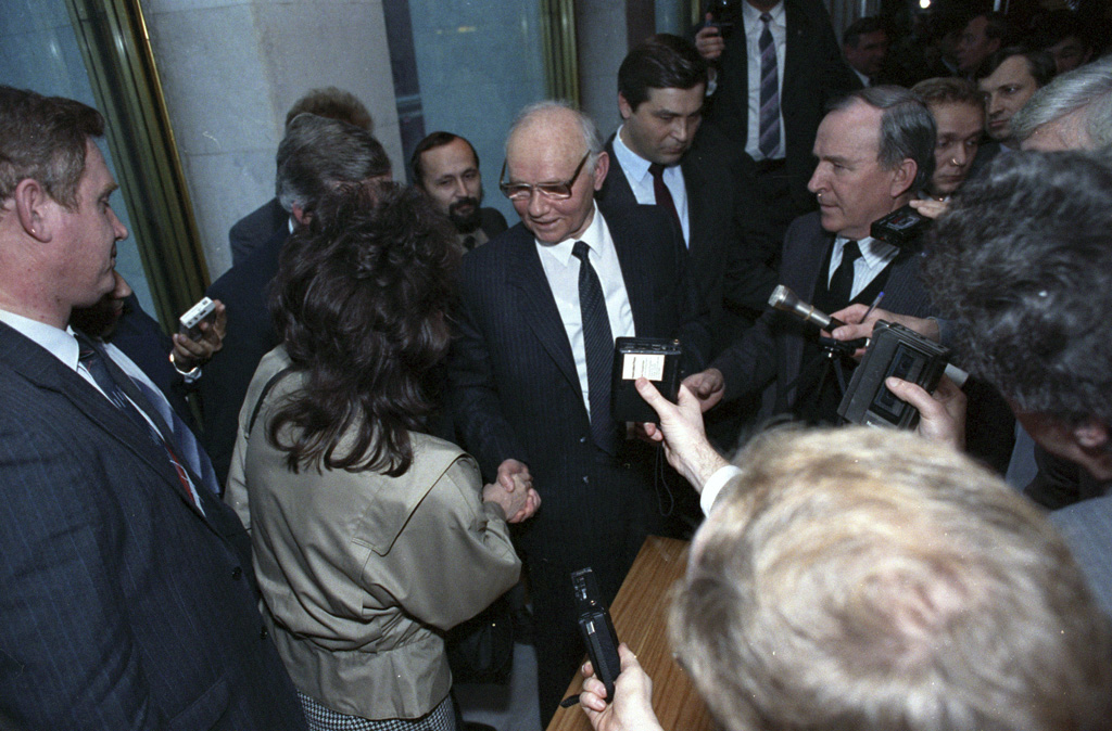 “4th USSR People's Deputies Congress”. KGB Chairman Vladimir Kryuchkov interviewed by journalists at the Kremlin Palace.